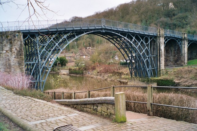 The Iron Bridge. The area around Ironbridge just shows what the great god 'Heritage' can do! As a child, I remember the area in its tatty, crumbling state.